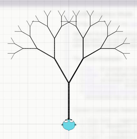 cropped screenshot of Recursive Fractal Tree created in Turtle Mode on Go Play Space using Go (programming language)